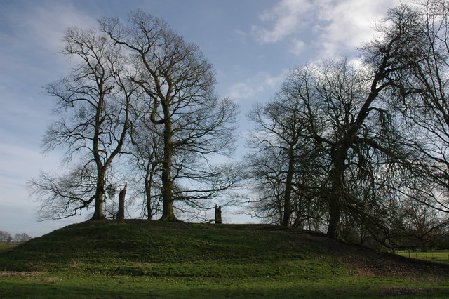 Motte in the village of Kingsland The motte at Kingsland is situated a couple of hundred yards to the west of the church, it has a diameter of 60 yards and a height of 17 feet.